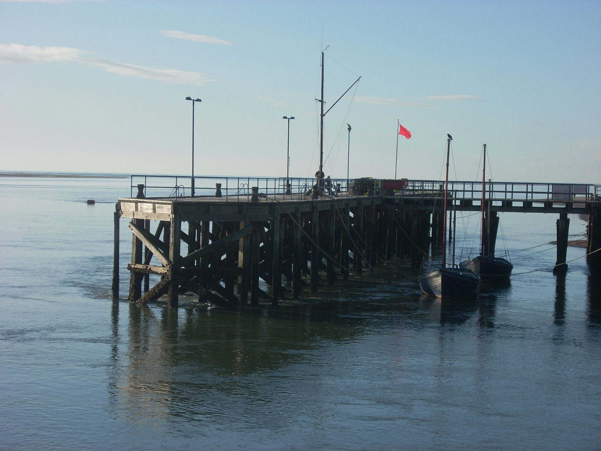 Aberdyfi jetty in winter